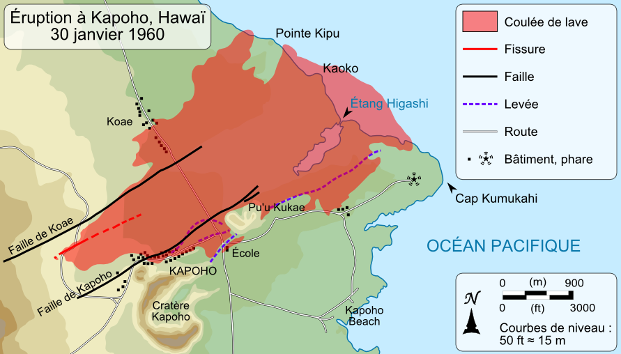 Map of the lava flow the january 30, 1960 during the 1960 Kilauea eruption, Hawaii, United States